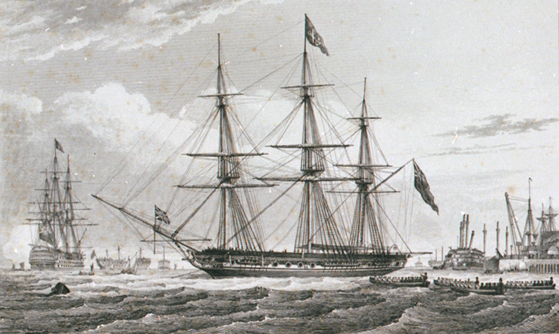 The Mayor and Corporation of Portsmouth, going on board the Yacht ['Royal Sovereign'], with an Address Augt 2d 1827 Technique includes etching.